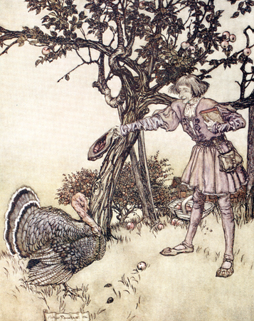 Illustration to Rudyard Kipling's Puck of Pook's Hill, by Arthur Rackham